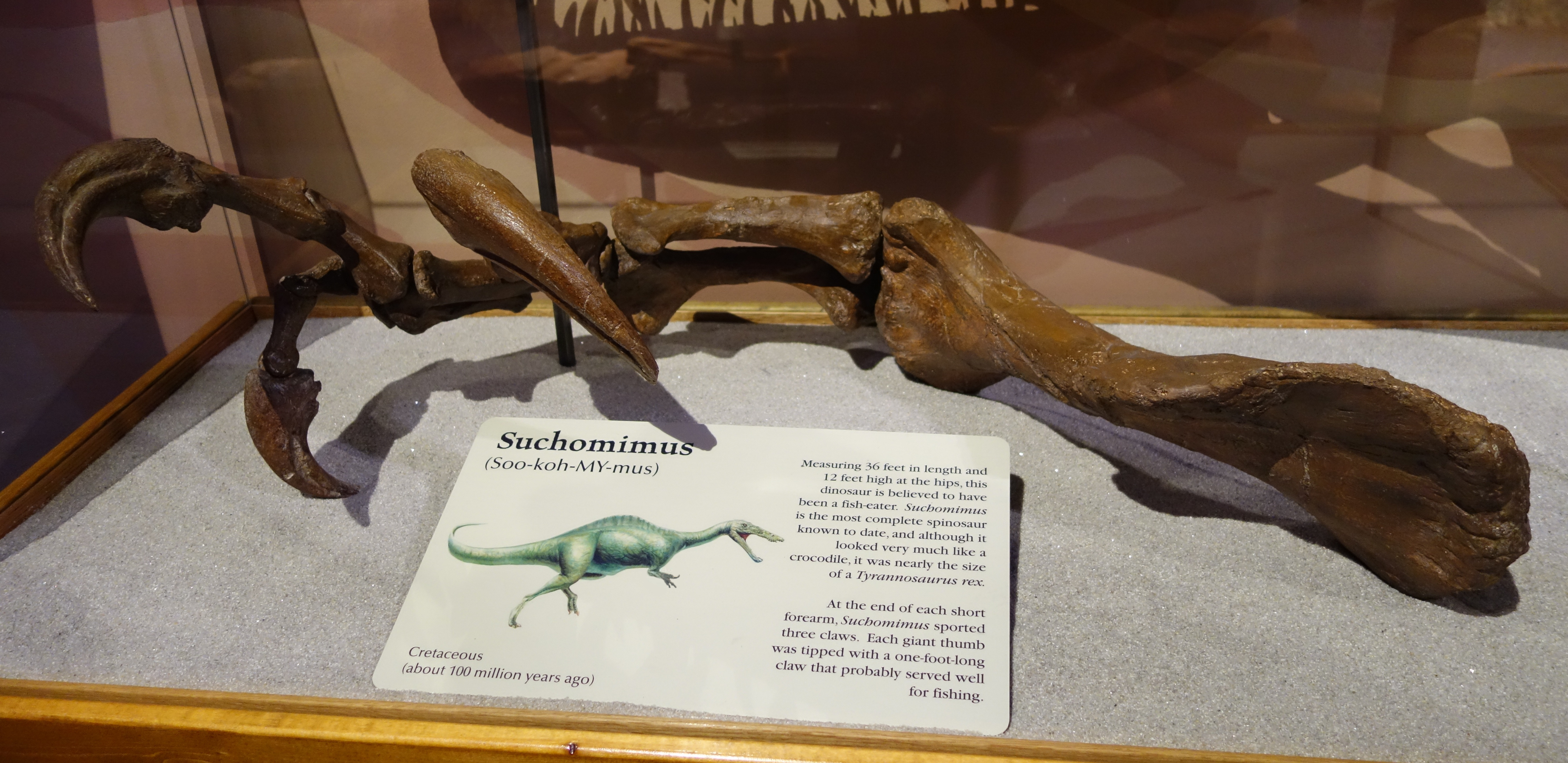 Suchomimus forelimb (cast), on display at the Museum of Ancient Life, Utah.